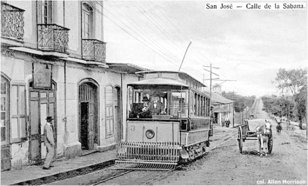 Old tramway in San Jose, Costa Rica, 1899.